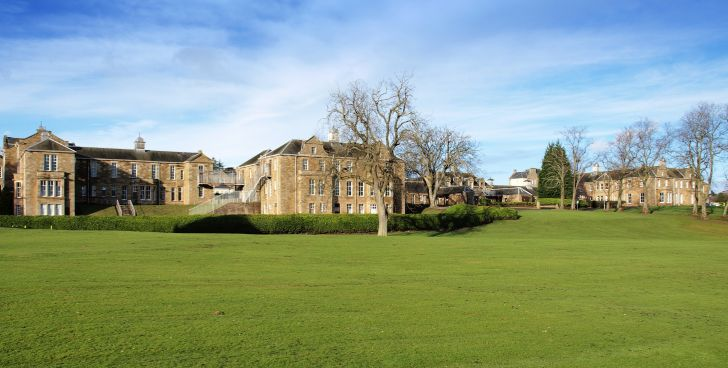 Stratheden Hospital, Fife, from the south. All these wards are now closed.